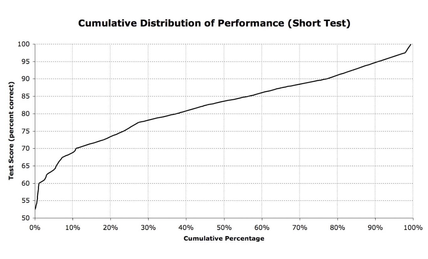 Cumulative frequency of performance on the Glasgow Face Matching Test